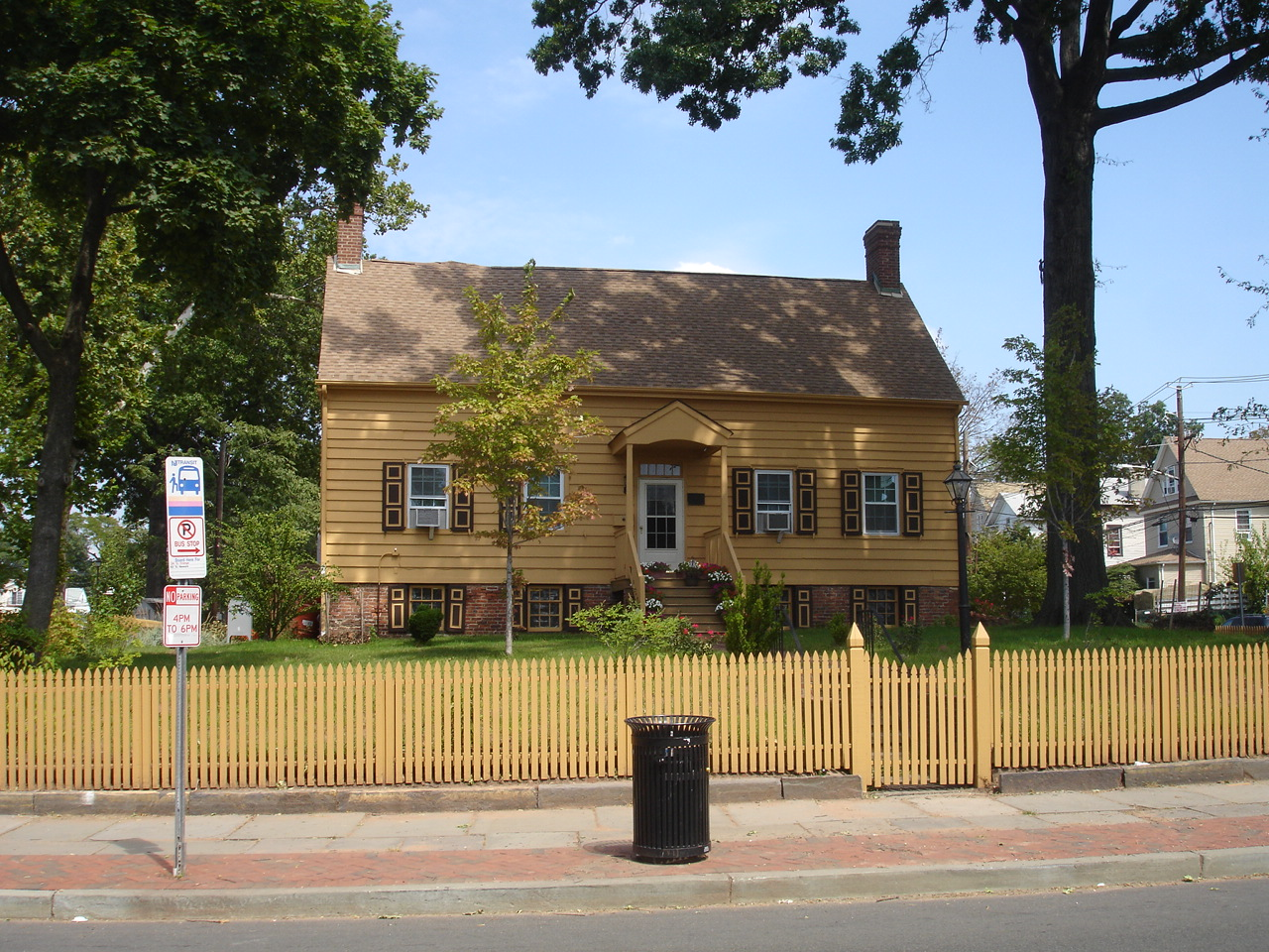 I took this photo of the Nathaniel Bonnell House myself on September 2, 2011.